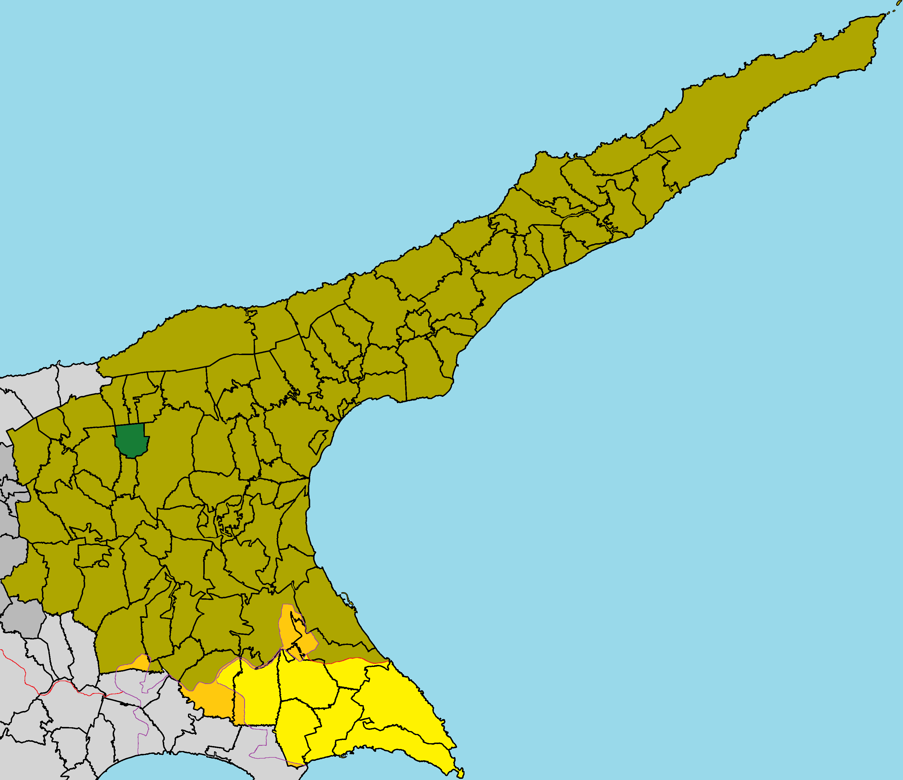 Goufes in Famagusta District (de jure).